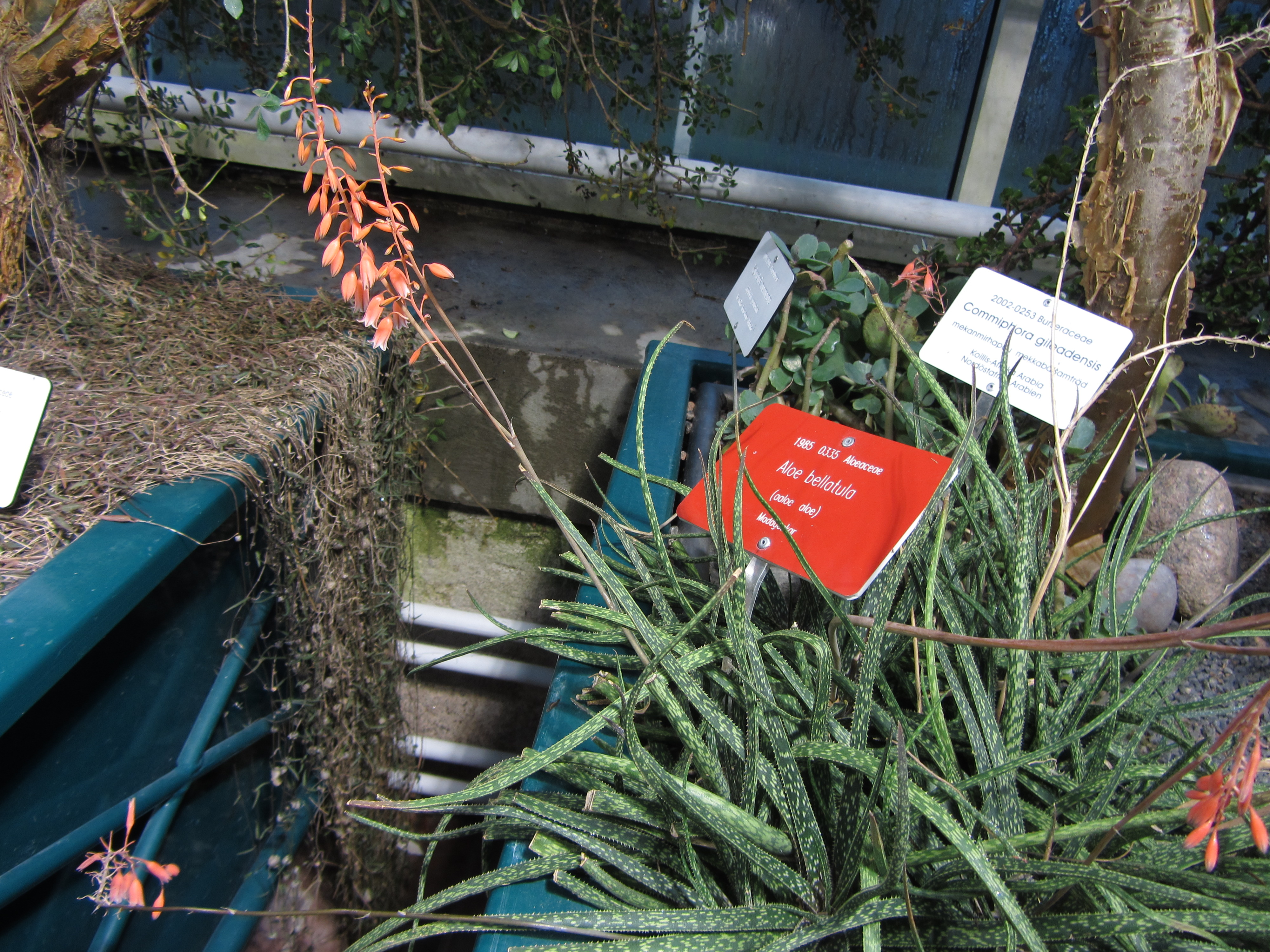 Aloe bellatula in the Glasshouses of Kaisaniemi Botanical Garden in Helsinki, Finland